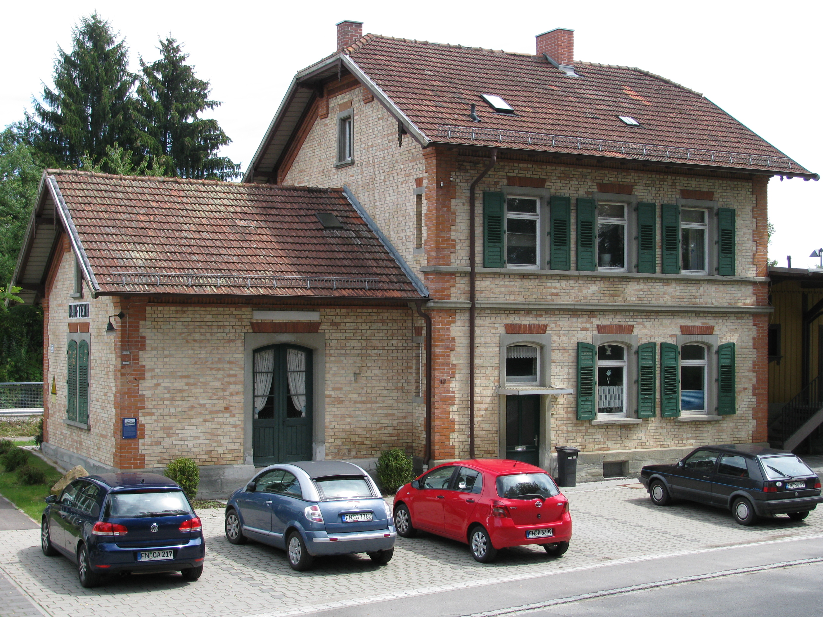 Germany - Baden-Württemberg - Bodenseekreis - Friedrichshafen - Kluftern: train station